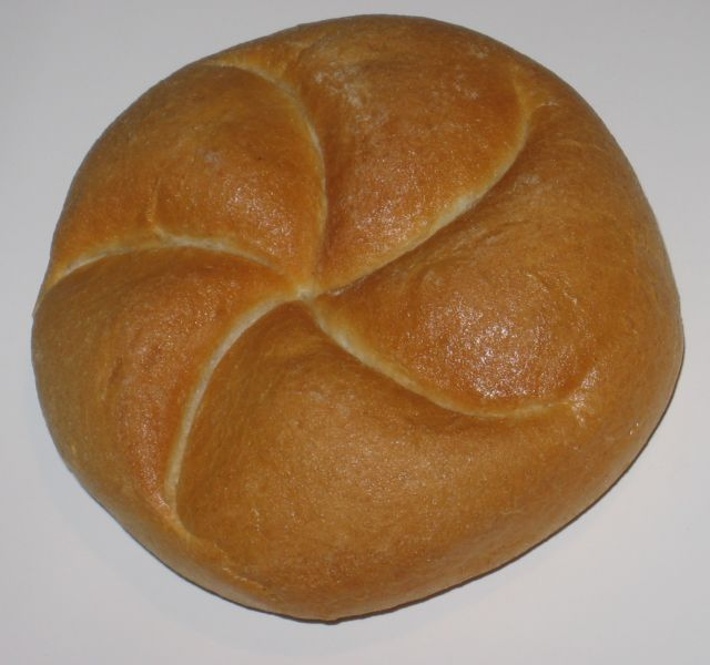 Kajzerka - a kind of bread (loaf), typical in Poland, specially in Silesia, Greater Poland and Lesser Poland part of country. Named from German word Kaisersemmel (Semmel - bread or loaf), after Kaiser Wilhelm II Hohenzollern.